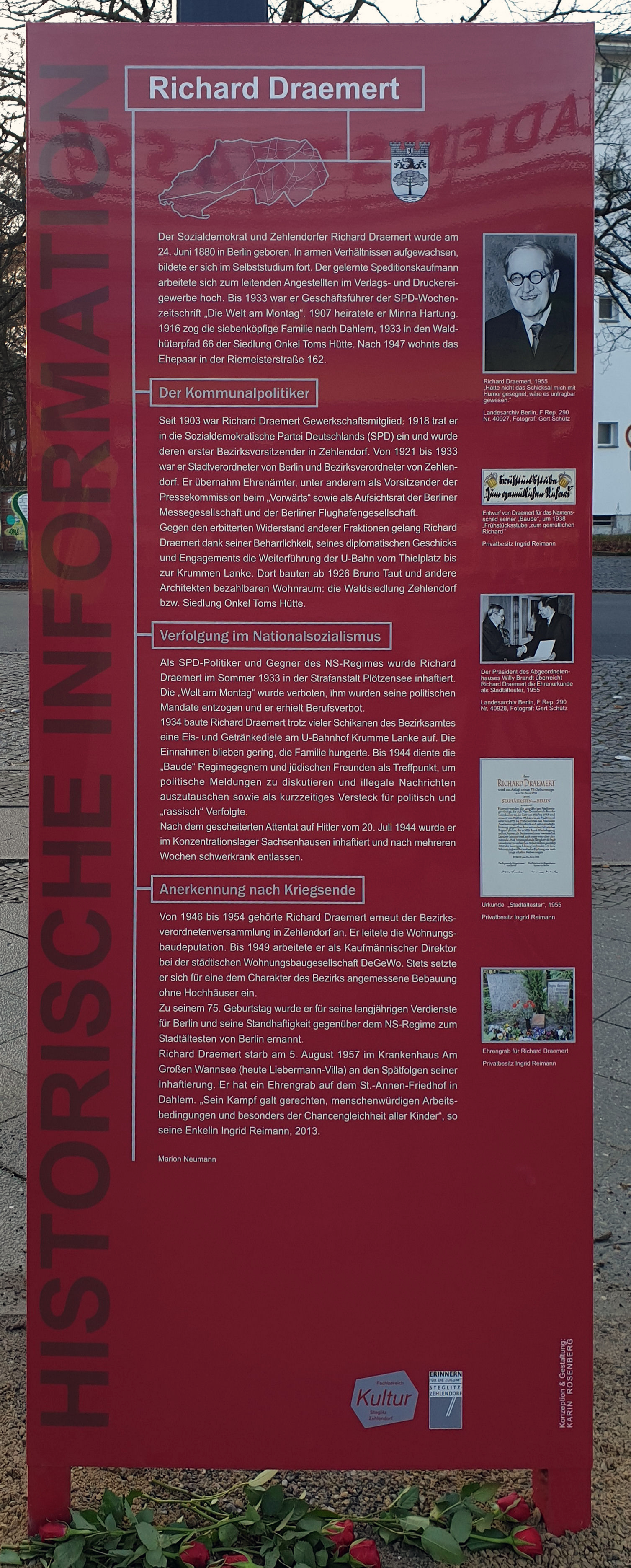 Memorial plaque, Richard Draemert, Onkel-Tom-Straße 99, Berlin-Zehlendorf, Deutschland